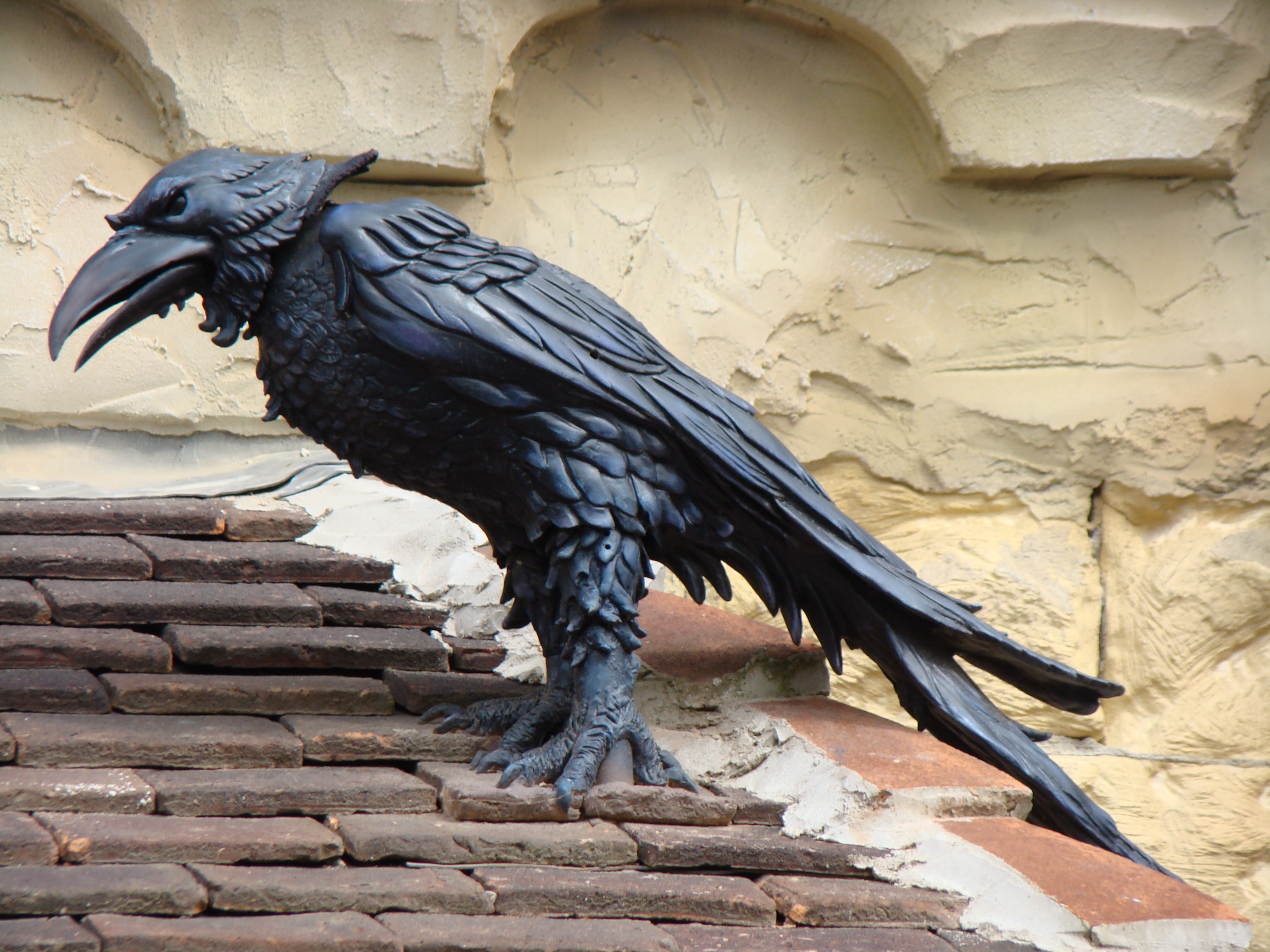 Impressions of Raveleijn, Efteling at Kaatsheuvel